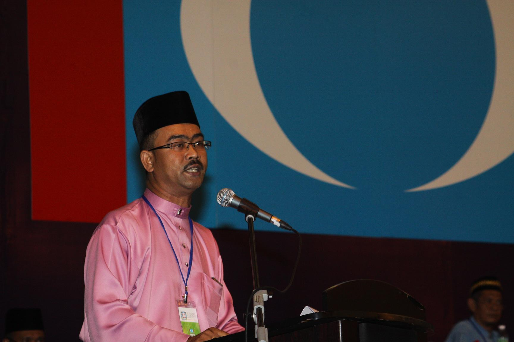 Fariz Musa is giving his sermon to Parti Keadilan Rakyat supporters.